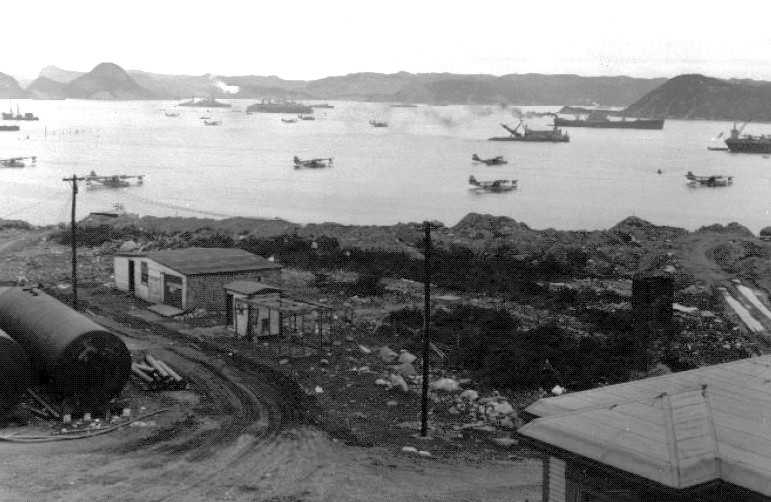 U.S. Navy ships and aircraft in Little Placentia Sound off the U.S. Naval Station Argentia, Newfoundland, Canada, in 1942. Visible are nine Consolidated PBY Catalina and two Martin PBM Mariner flying boats, on the right is the faintail of the seaplane tender USS Albemarle (AV-5). An old battleship is anchored in the background.